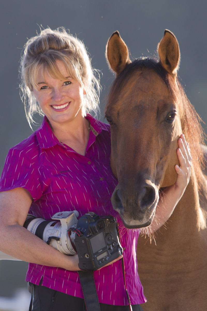 Christiane Slawik